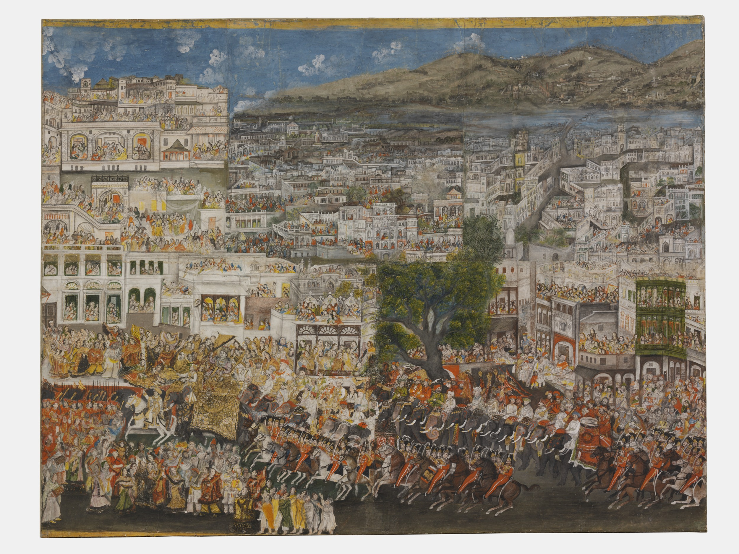 Central panel of a large triptych giving a panoramic view of Lucknow. Ghazi du-Din Haider can be seen on an elephant at the bottom left of the painting, mounted on an elephant and surronded by dancing girls and courtiers. The procession of figures on elephants and horses follows behind him. The buildings of Lucknow can be seen in the middle ground with specators, mainly women, on the balconies. A river and hills can be seen in the distance. There is a large tree at the centre right.